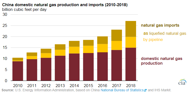 Rapid growth in China’s natural gas consumption has outpaced growth in its domestic natural gas production in recent years. October 23, 2019